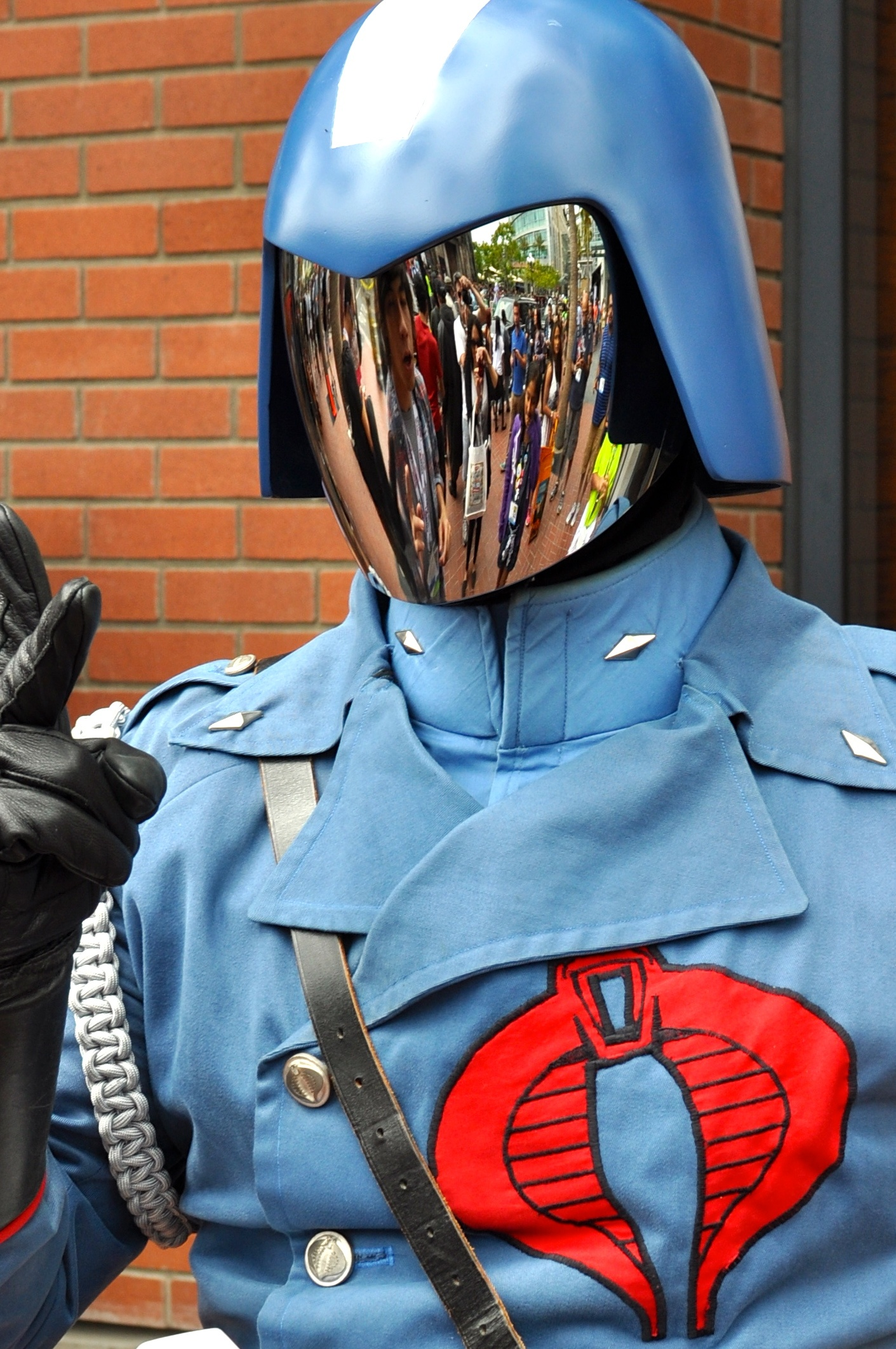 Cosplay at San Diego Comic-Con 2013.